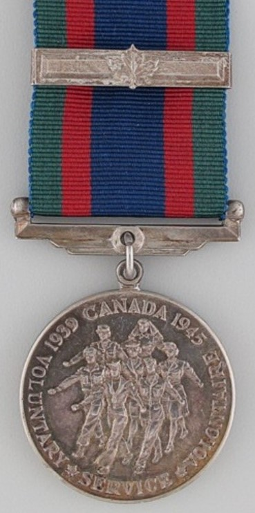 Canadian campaign medal for WW2, with clasp for overseas service.